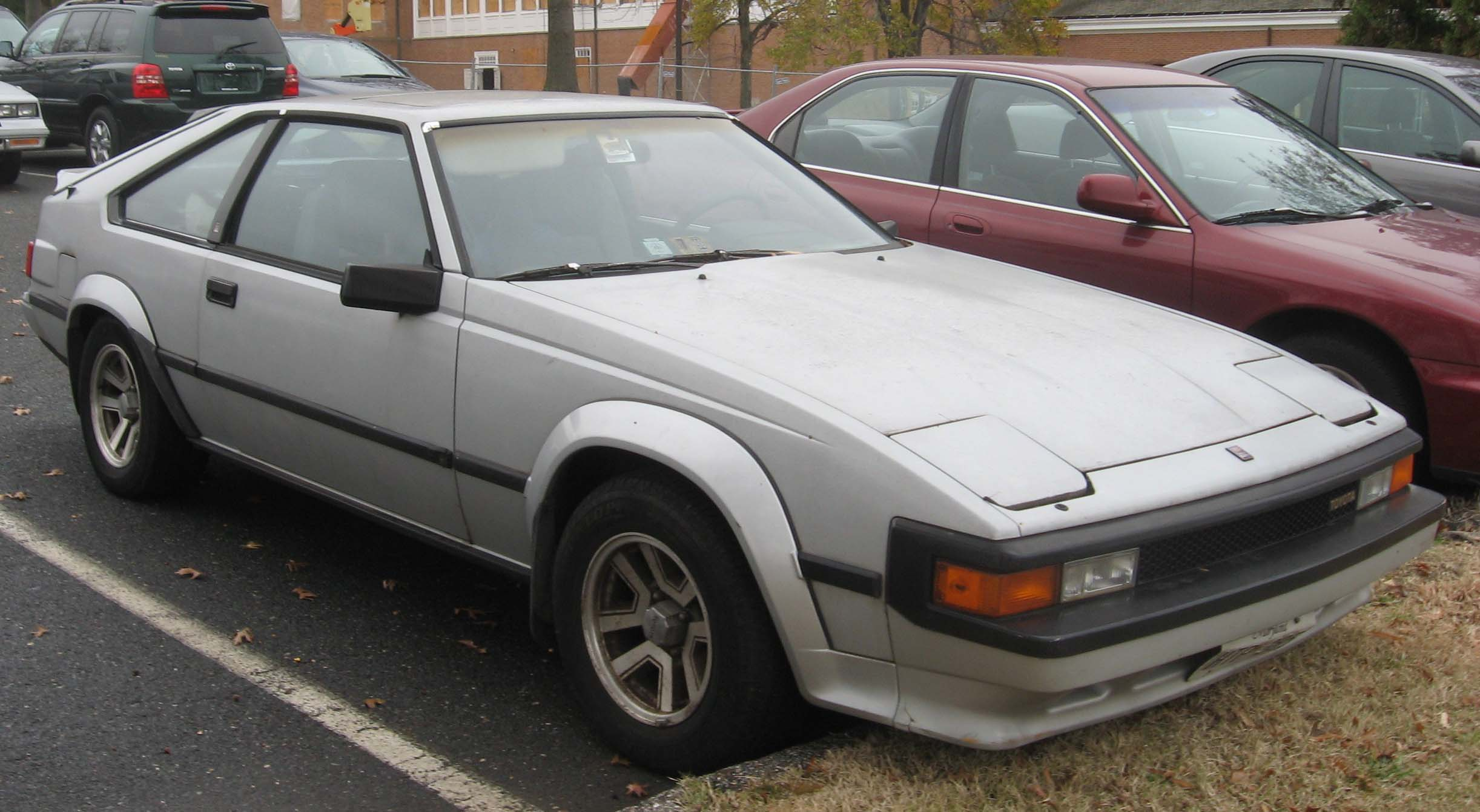 1982-1986 Toyota Supra photographed in College Park, Maryland, USA.